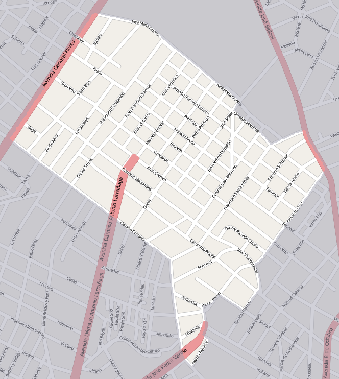 Street map of Ituzaingó, Montevideo, exported from OpenStreetMap. I added shading to delimit the barrio. This map may be incomplete, and may contain errors. Don't rely solely on it for navigation.